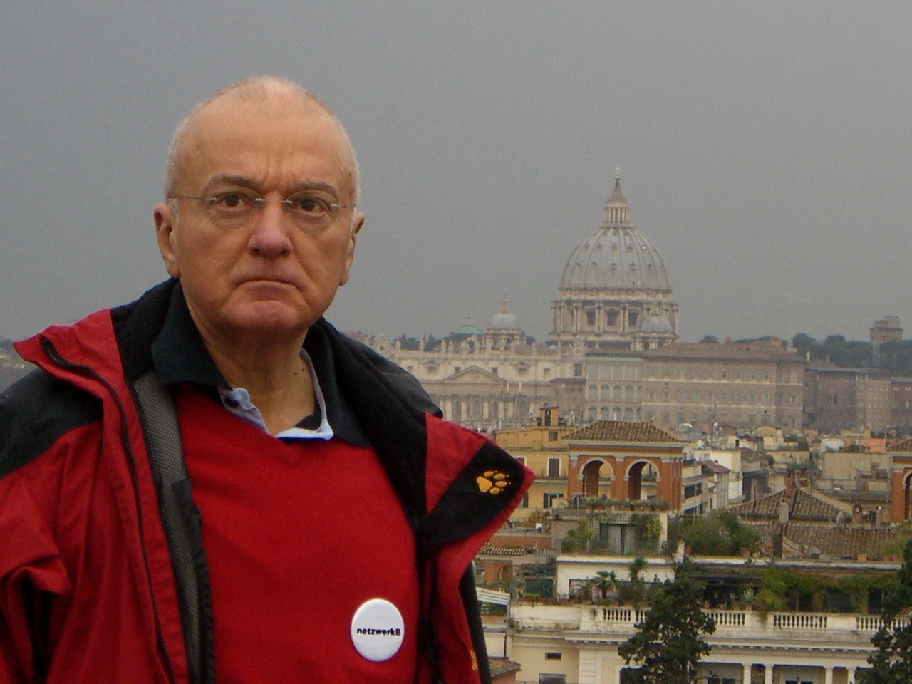 Norbert Denef, netzwerkB and SNAP in Vatican City, 19. November 2010